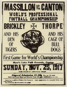 Canton Bulldogs-Massillon Tigers advertisement for a 1917 game. This a very heated rivilry during the early days of pro football.